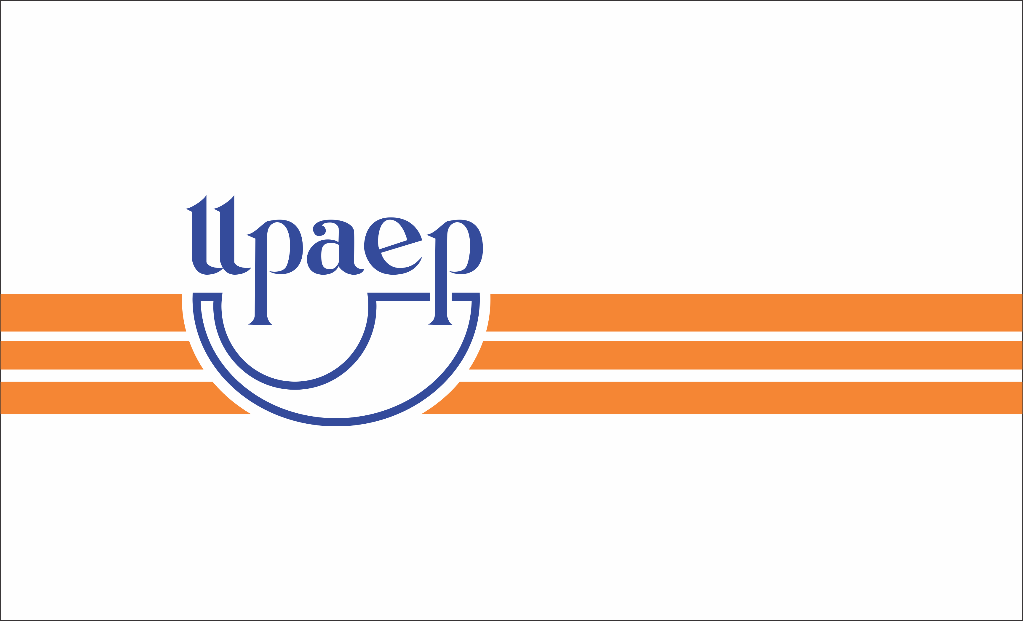 Flag of UPAEP, png